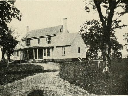 White House plantation, where Martha Washington, First Lady of the United States lived before she became a widow and married George Washington.